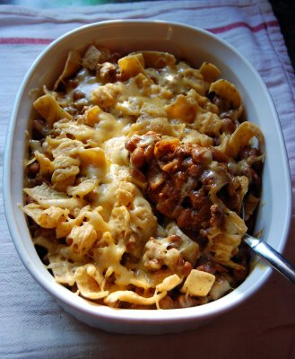 Frito pie as one would commonly see it in the home. "It is exactly as complicated as it sounds – chili on Fritos. Other accoutrements are optional."